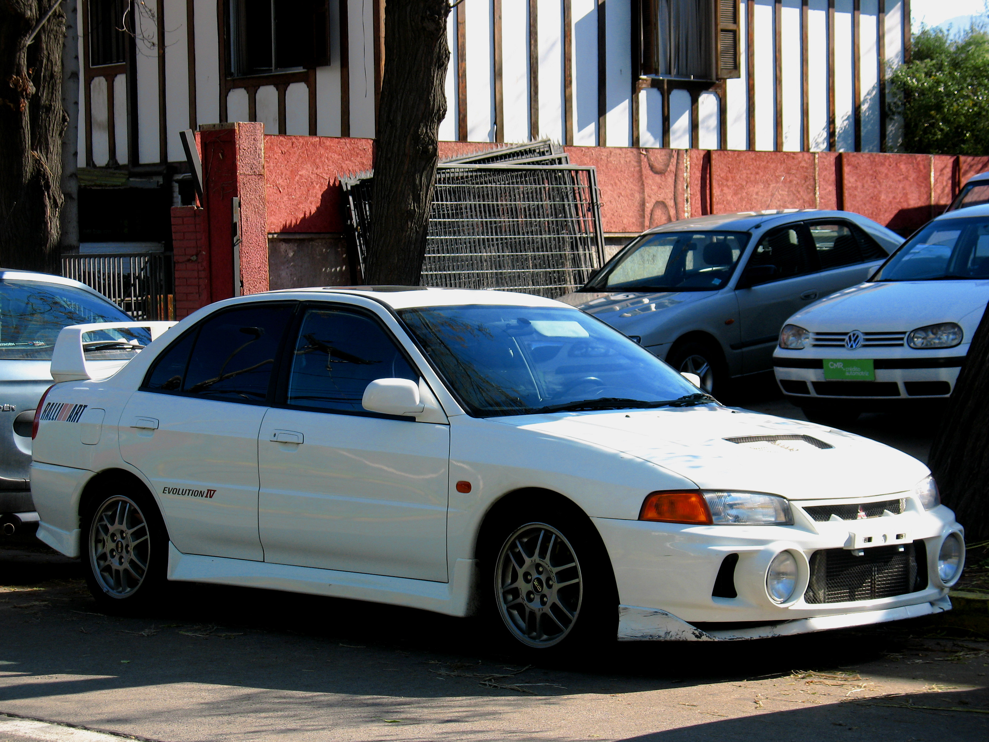 Mitsubishi Lancer Evolution 4 1996